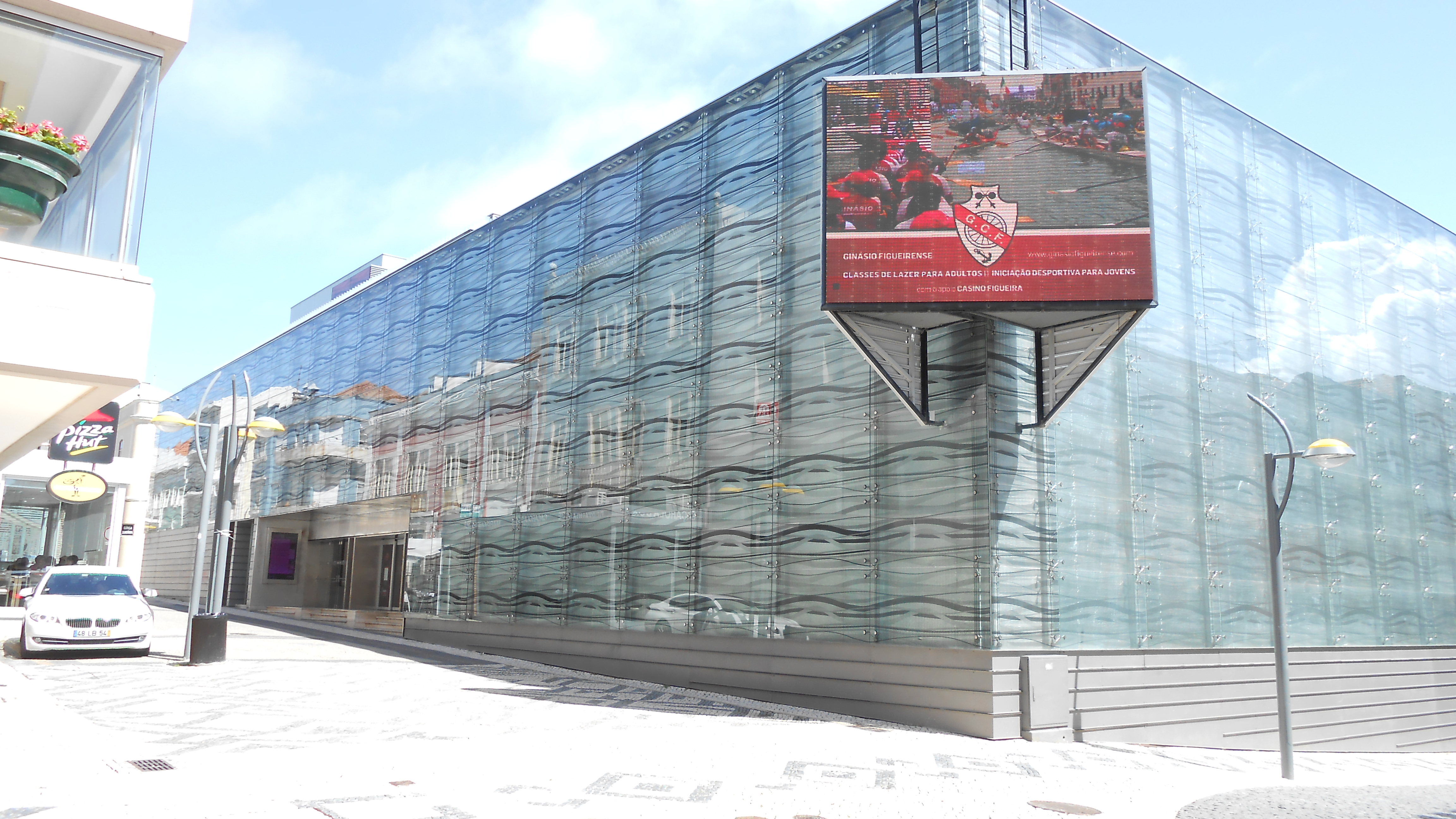 The Ginásio Clube Figueirense announcing at the Casino Figueira da Foz, 2013